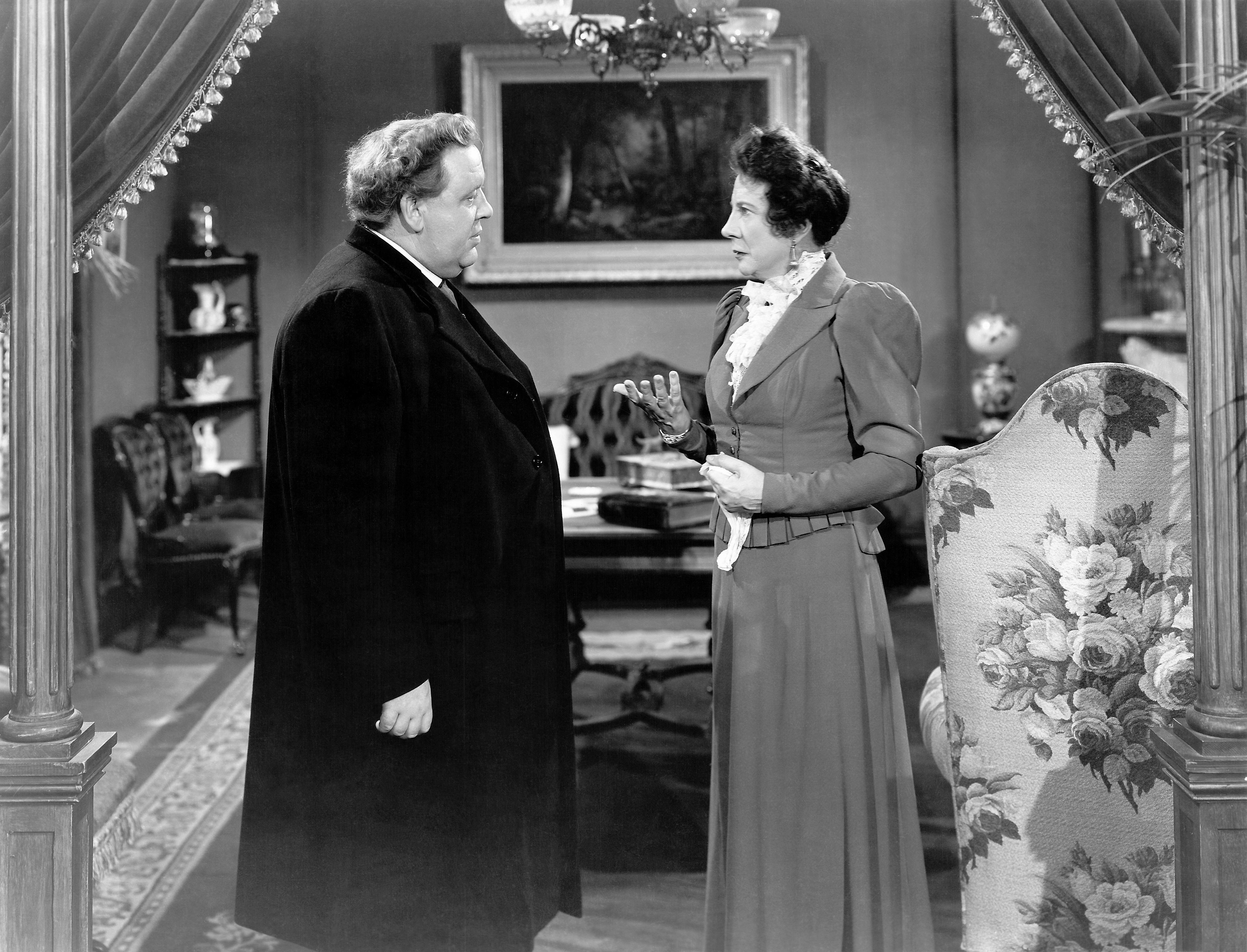 Publicity still of Charles Laughton and Rosalind Ivan in the 1944 film, The Suspect